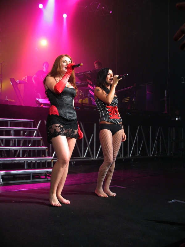 t.A.T.u. Bacardi B-LIVE in Moscow